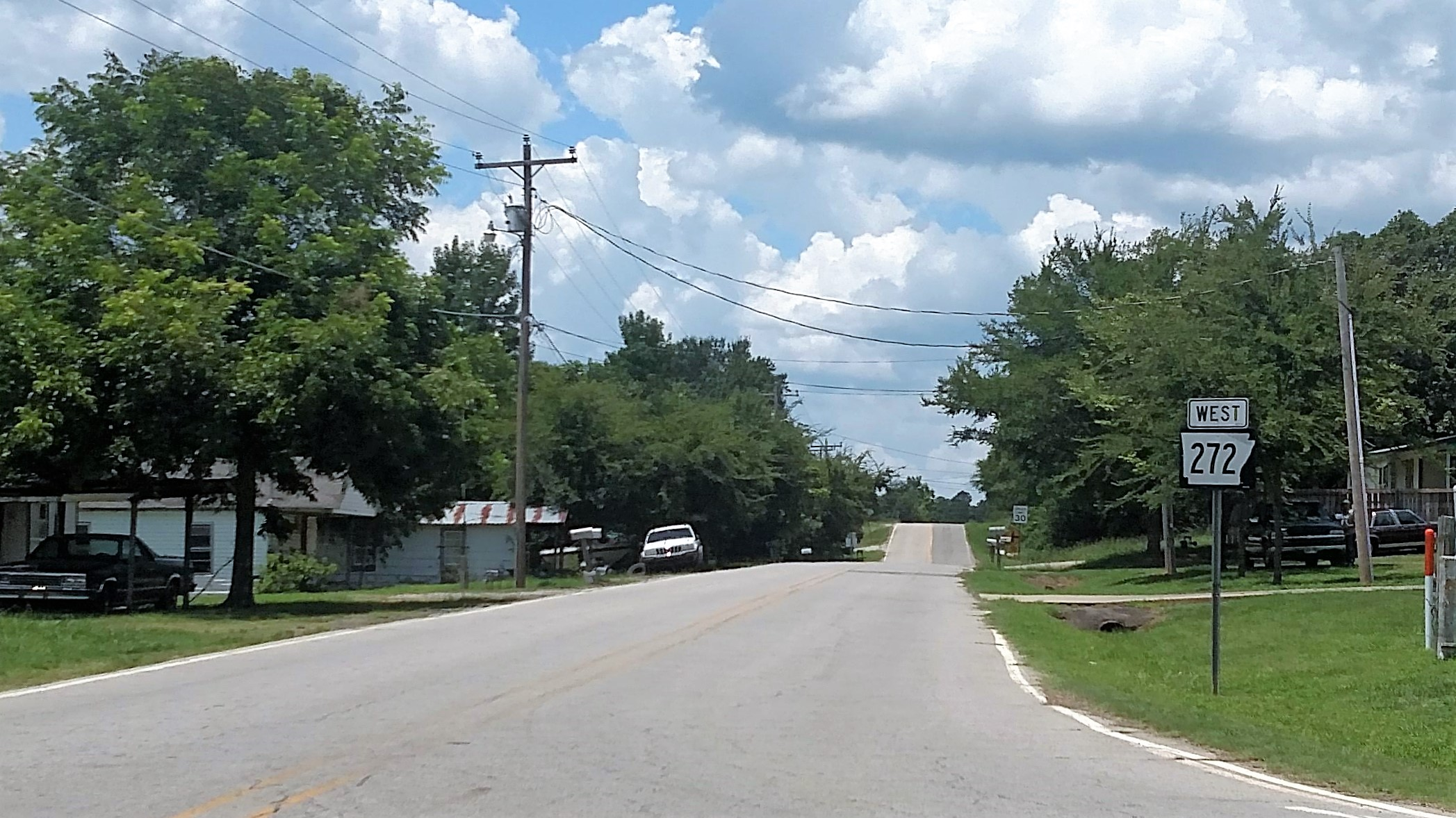 First reassurance marker west of the US 71B intersection in Waldron, Arkansas